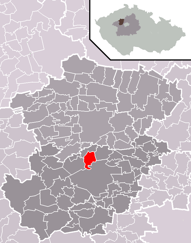 Location of Vinařice municipality within Kladno District and administrative area of Kladno as a Municipality with Extended Competence.